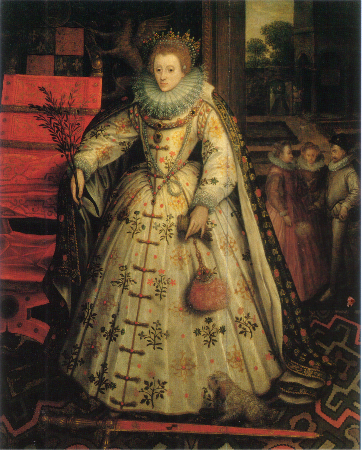 The Wanstead or Welbeck Portrait of Elizabeth I of England as Pax holding an olive branch and standing on the sword of Justice. It is said by Daniel Lysons (The Environs of London, 1796, vol 4, pp.231-244) to depict Old Wanstead House in the background. The picture was gifted to the Harley Foundation Charitable Trust by the late Lady Anne Bentinck. It is on permanent display at the Portland Collection, The Harley Gallery, Welbeck, Nottinghamshire, UK